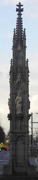 Celtic cross (german Hochkreuz) in the Bonner city district Hochkreuz.